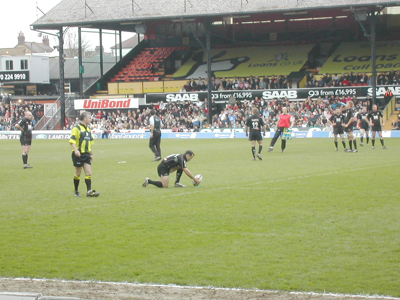 Rugby game Saracens vs Leicester at Watford Stadium, Watford, UK